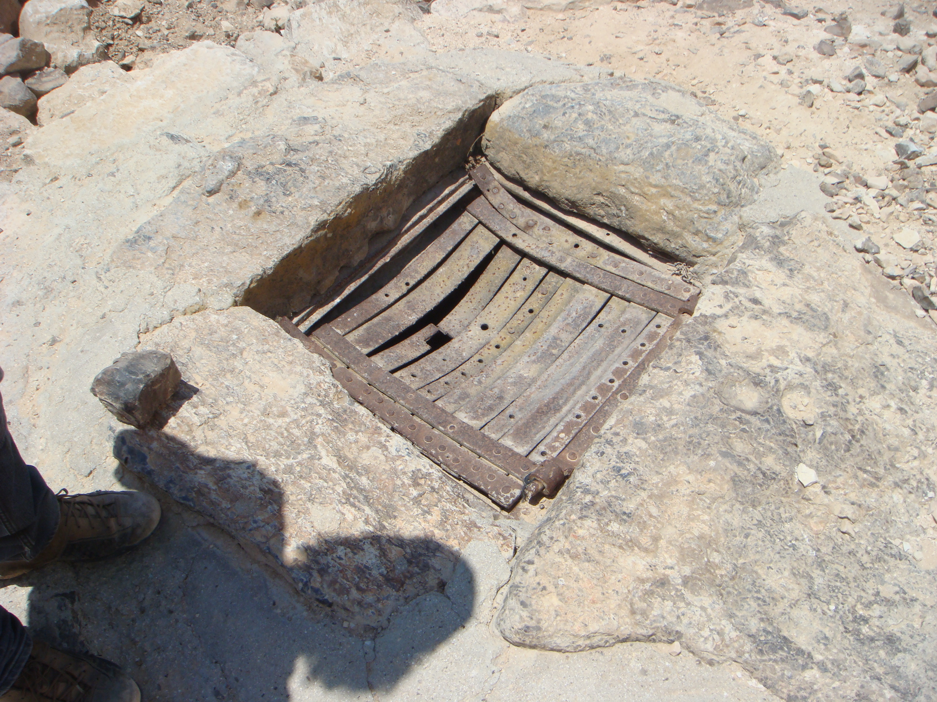 Water cisterns at Kina river bed, probably dating back to the Nabataean period. The river bed is overlooked by Horvat Uzza, an Israelite fortress siezed by the Edomites. Arad valley, Israel.